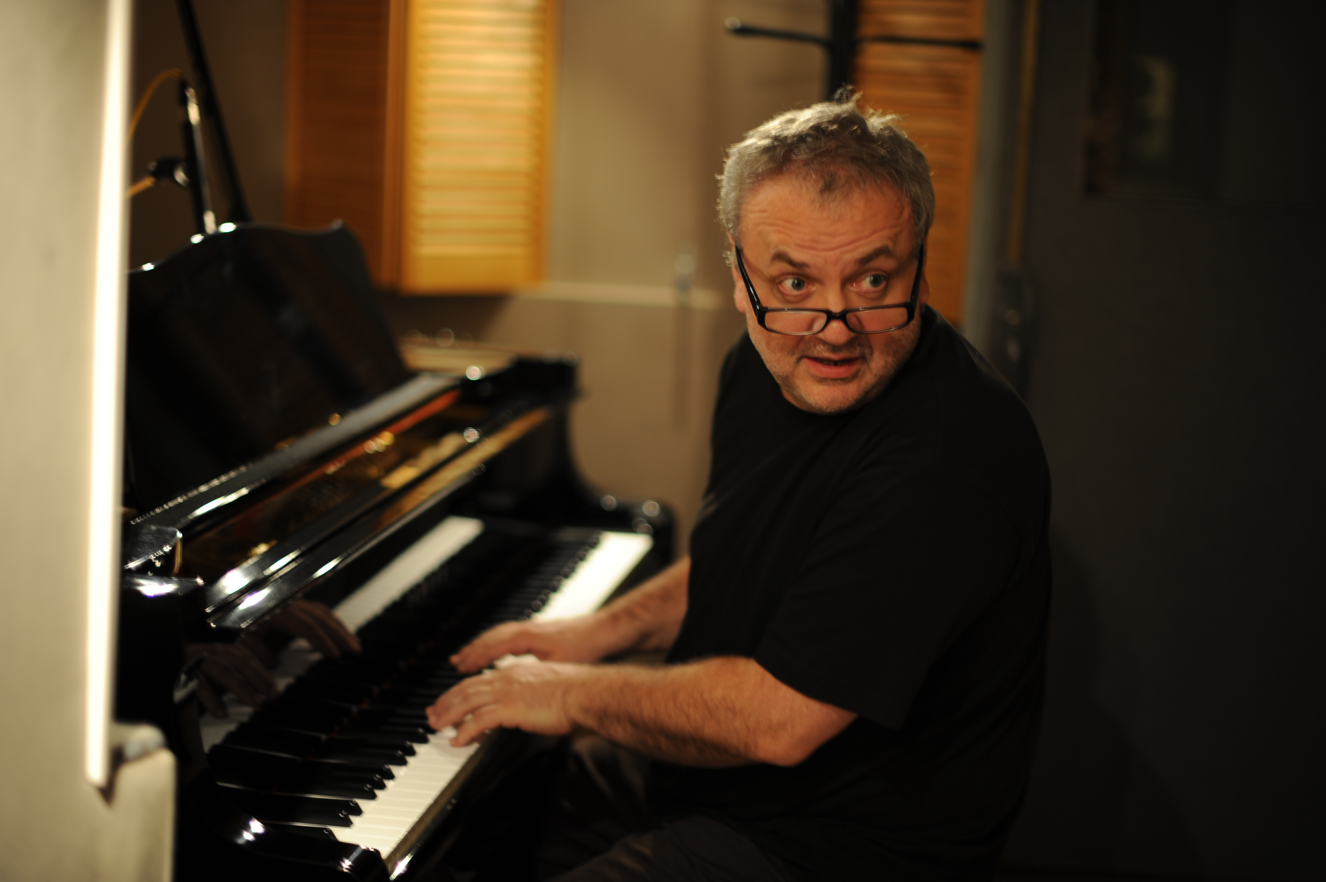 Piano portrait